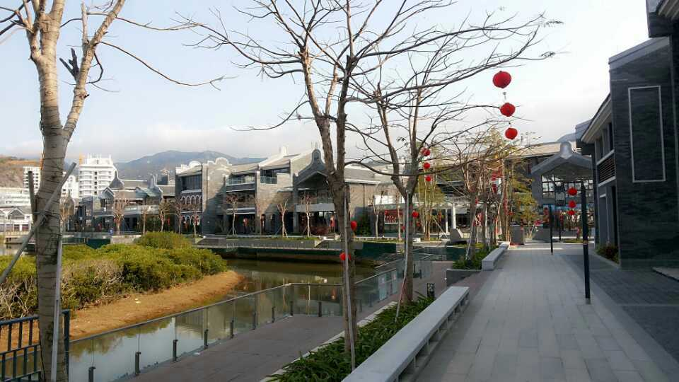 Queen of Heaven Palace in Xunliao Bay, Guangdong, China.